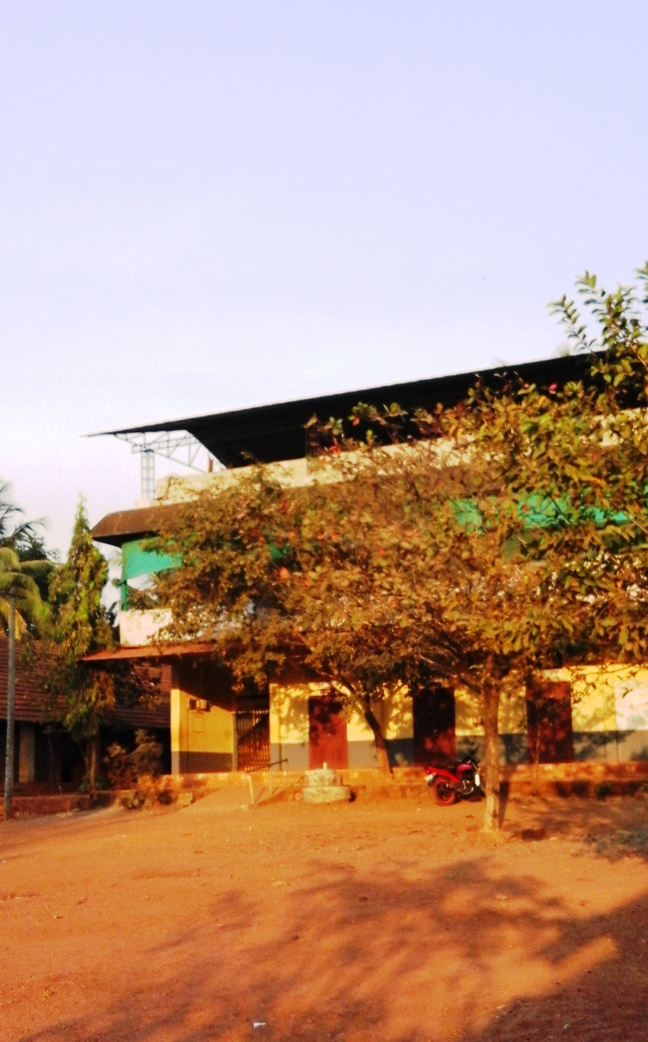 Kunhamutty Higher Secondary School, Karulai, Nilambur city, Malappuram District, Kerala province, India.